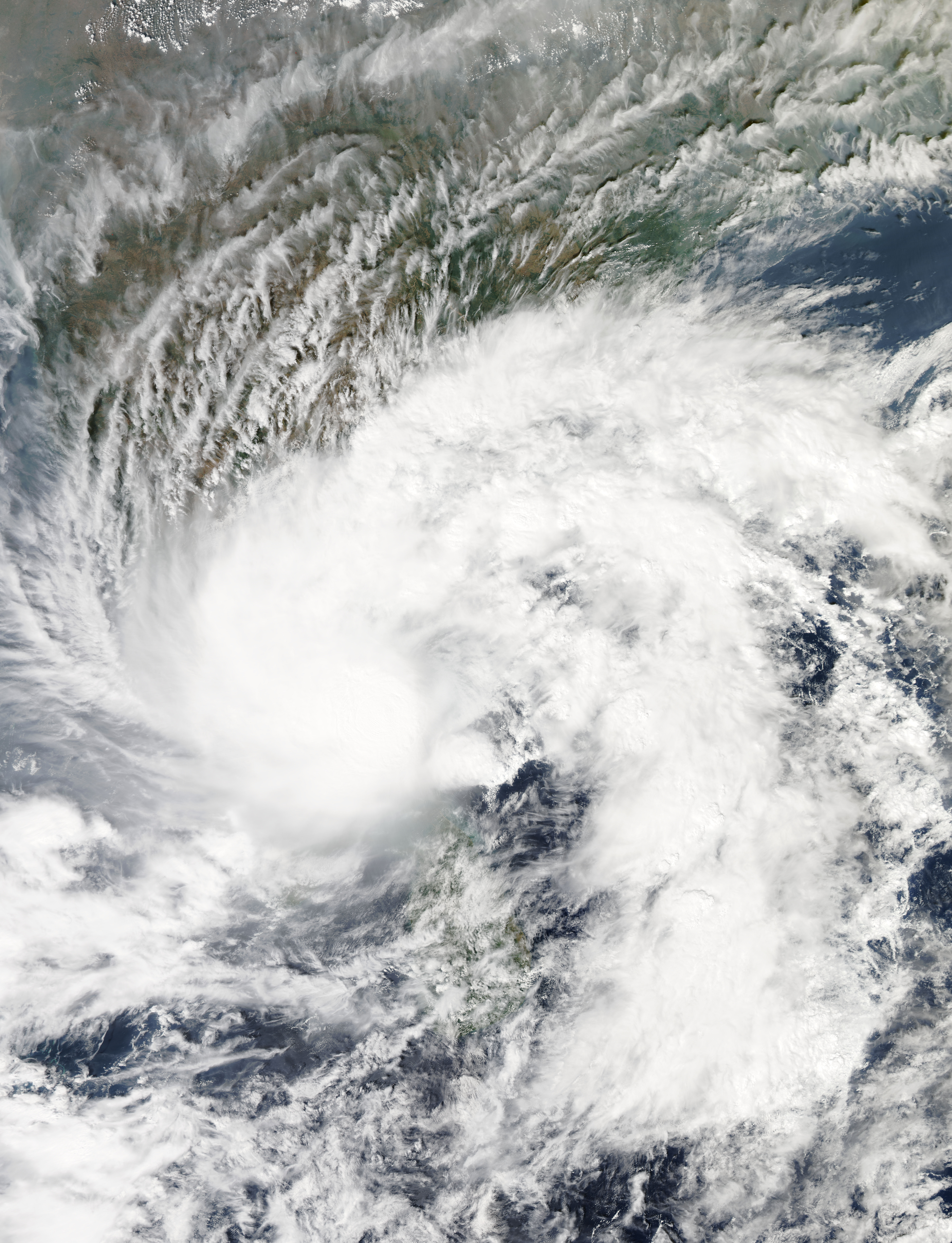 Storm over India